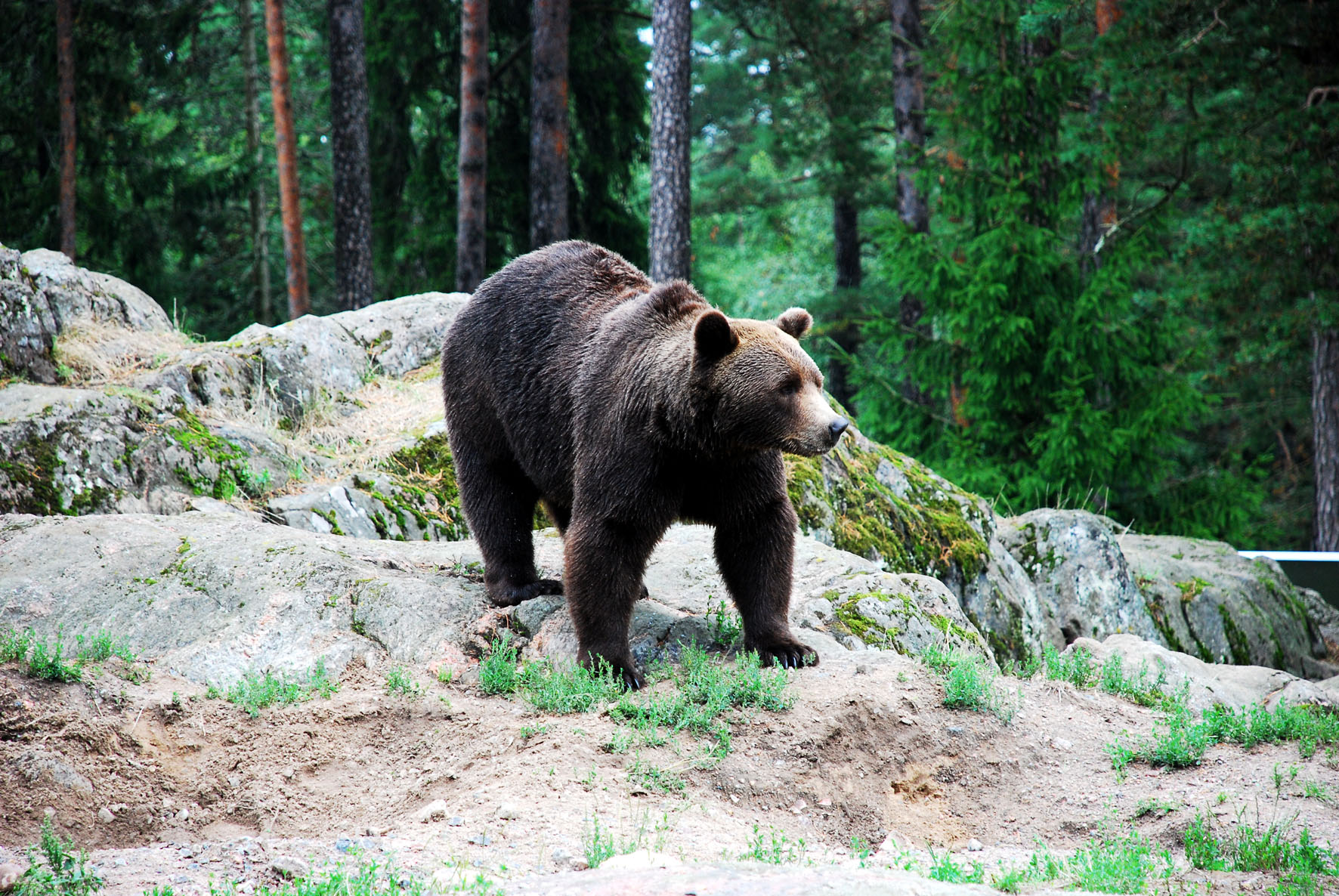 Brown bear (Ursus arctos arctos), Kolmården, Sweden